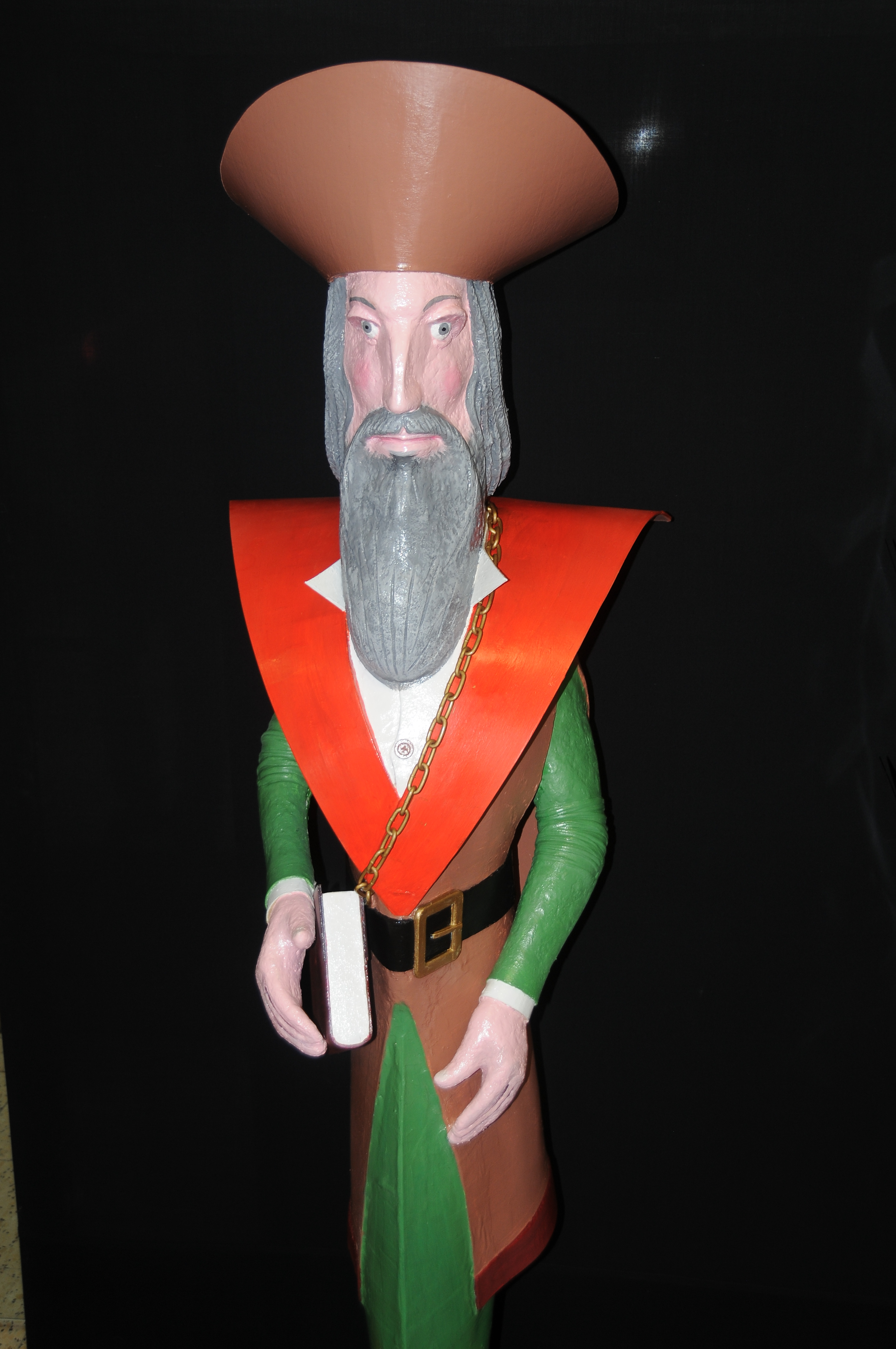 Sculpture of the poet Sá de Miranda in Palmeira School, Braga, Portugal.